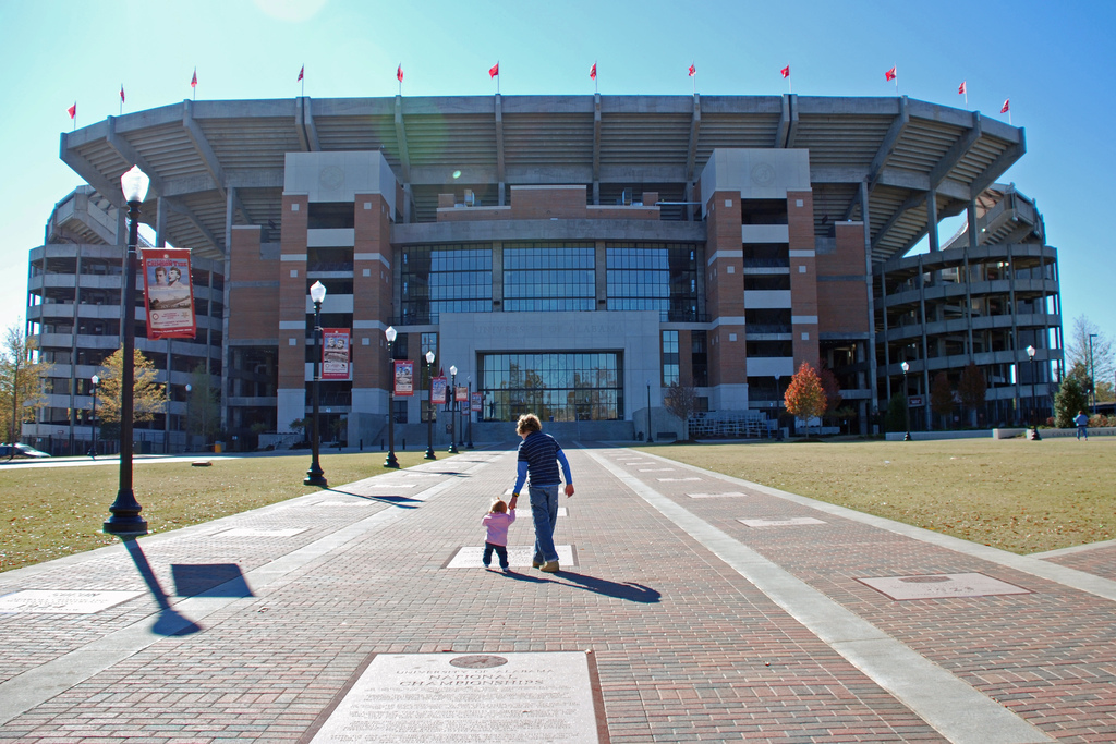 Photograph of the Walk of Champions and the North end zone at Bryant-Denny Stadium.